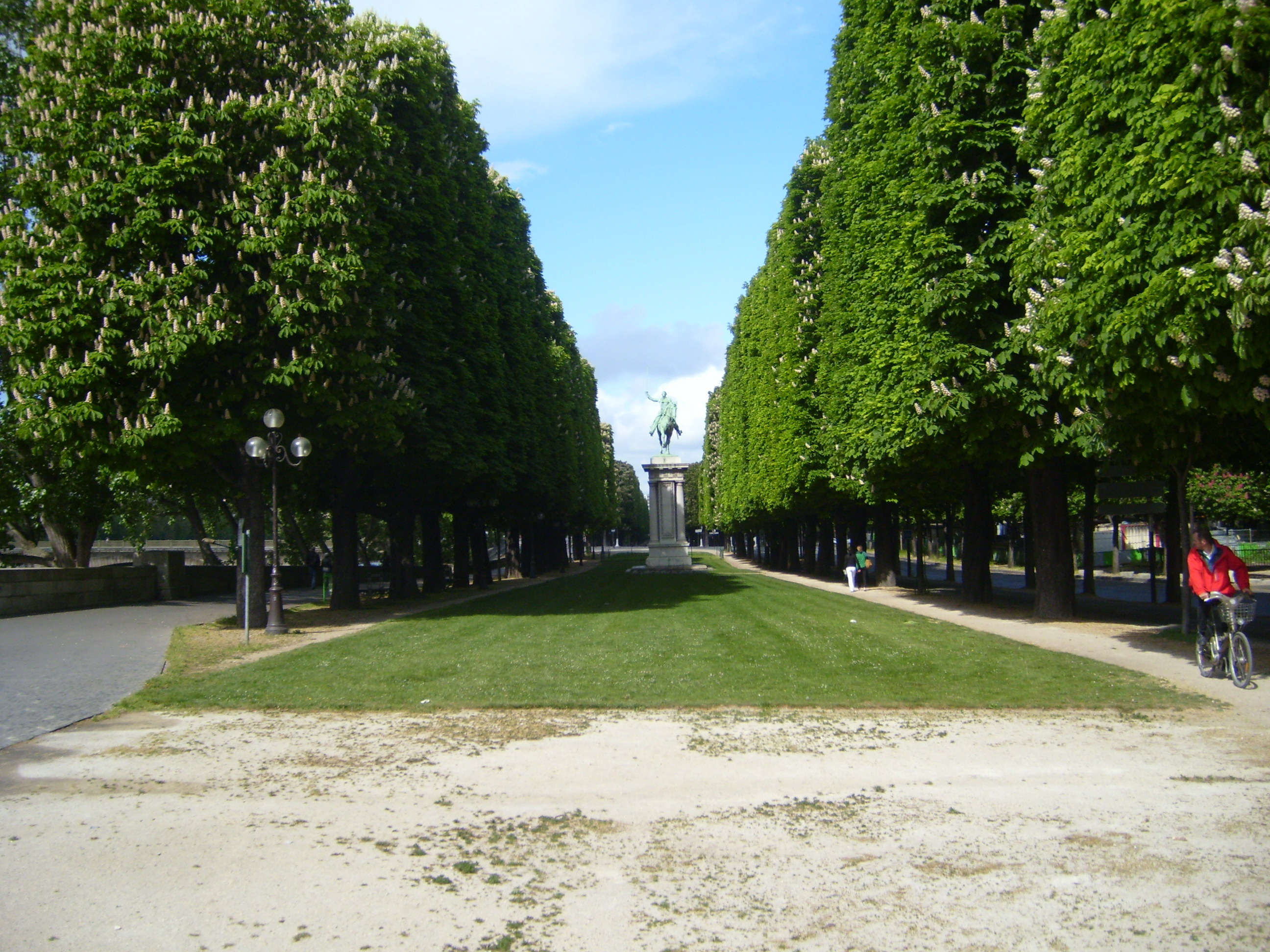 Chestnuts in blossom, street trees, Cours-la-Reine, VIIIe arrondissement, Paris, France.